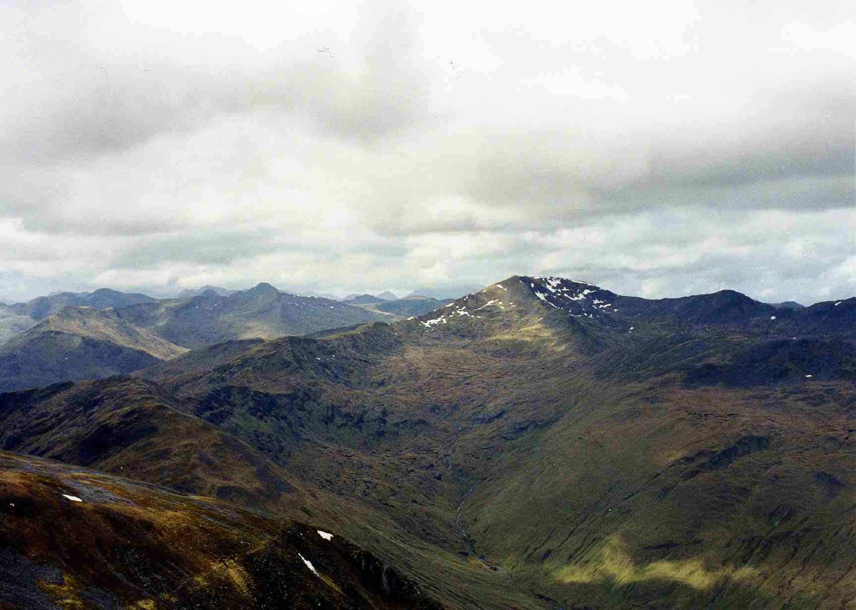 Sgùrr nan Ceathreamhnan from Mam Sodhail, 5 km to the NE. The Kintail hills are in the background Personal picture taken by Mick Knapton